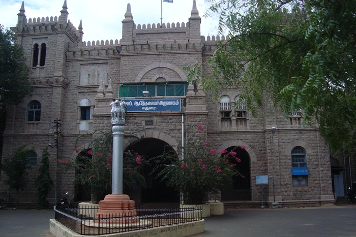 Madurai district Collector office